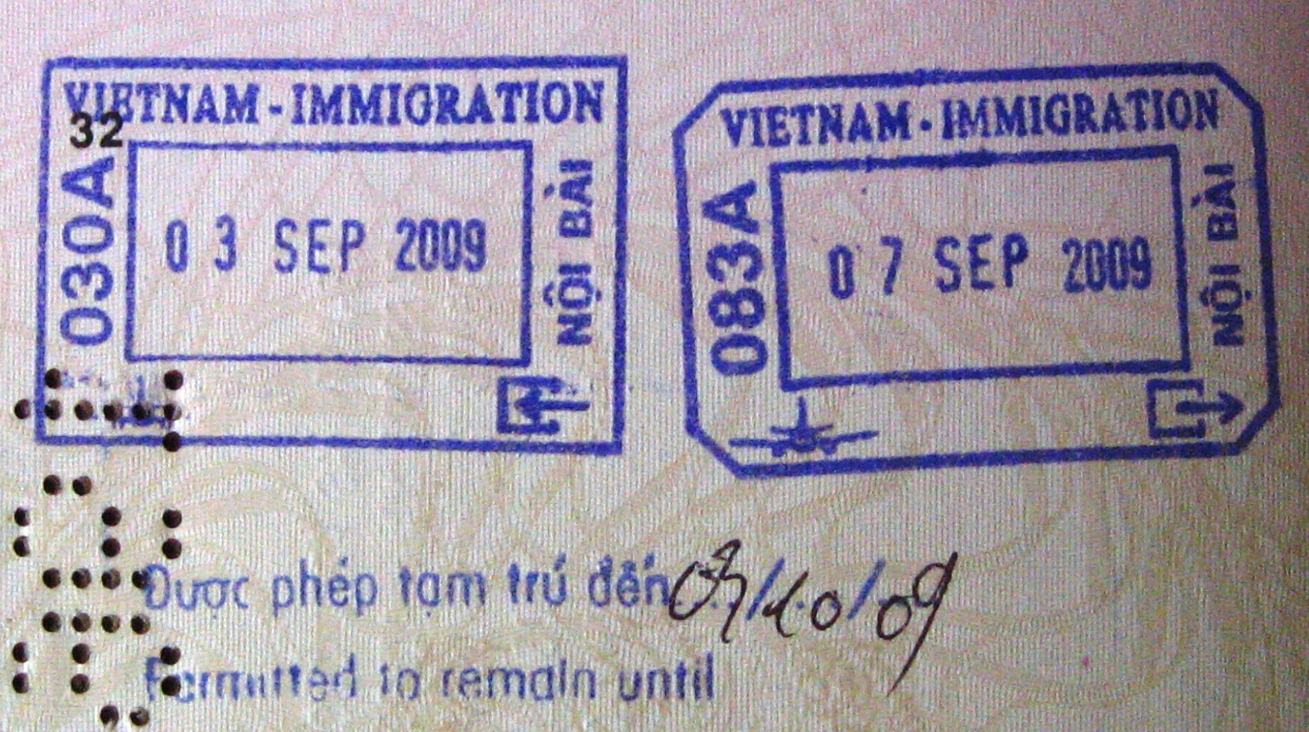 Passport stamp from Noi Bai Airport, Hanoi, Vietnam